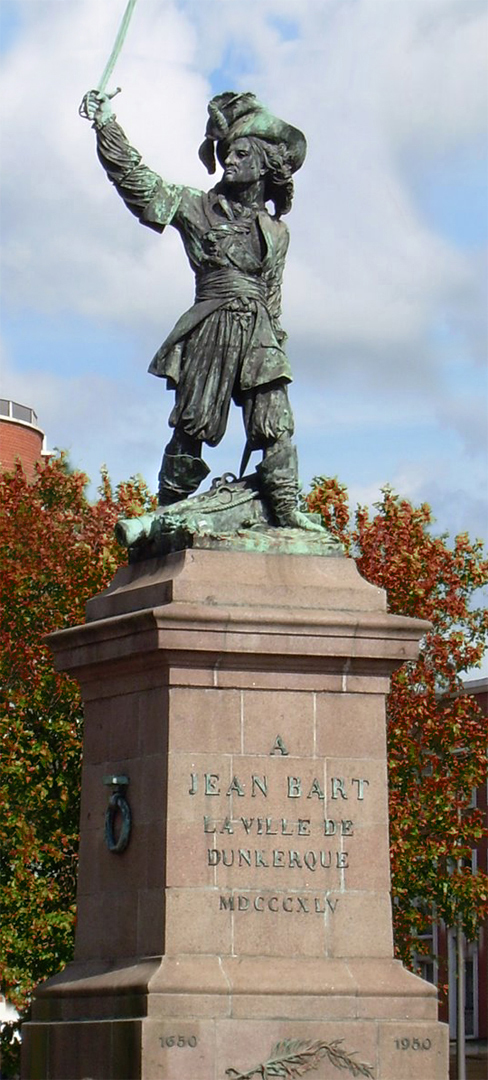 Statue of 17th century privateer Jean Bart in Dunkirk, France